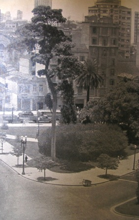 Chichá do Largo do Arouche